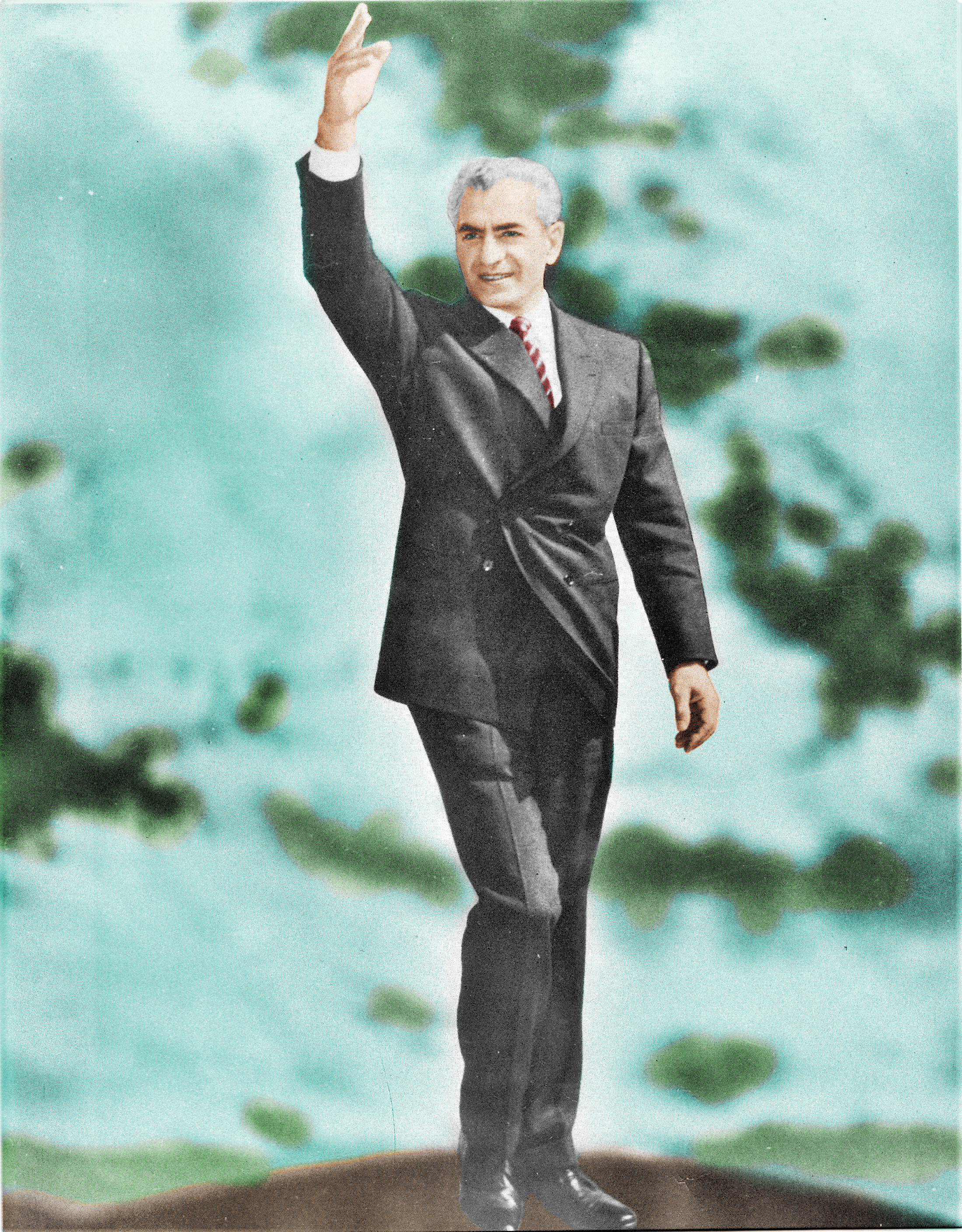 Shah Mohammad Reza Pahlavi greeting people - start of the white revolution, 1963 (color)